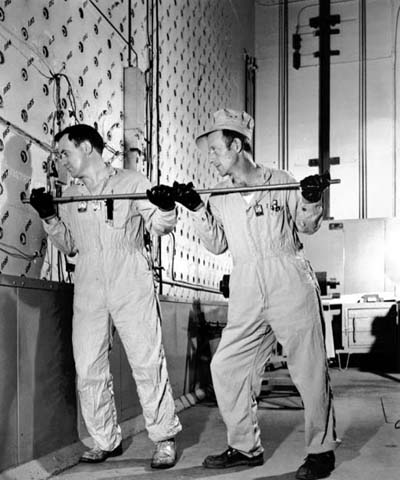 Workers use a rod to push uranium slugs into the concrete loading face of the X-10 Graphite Reactor.